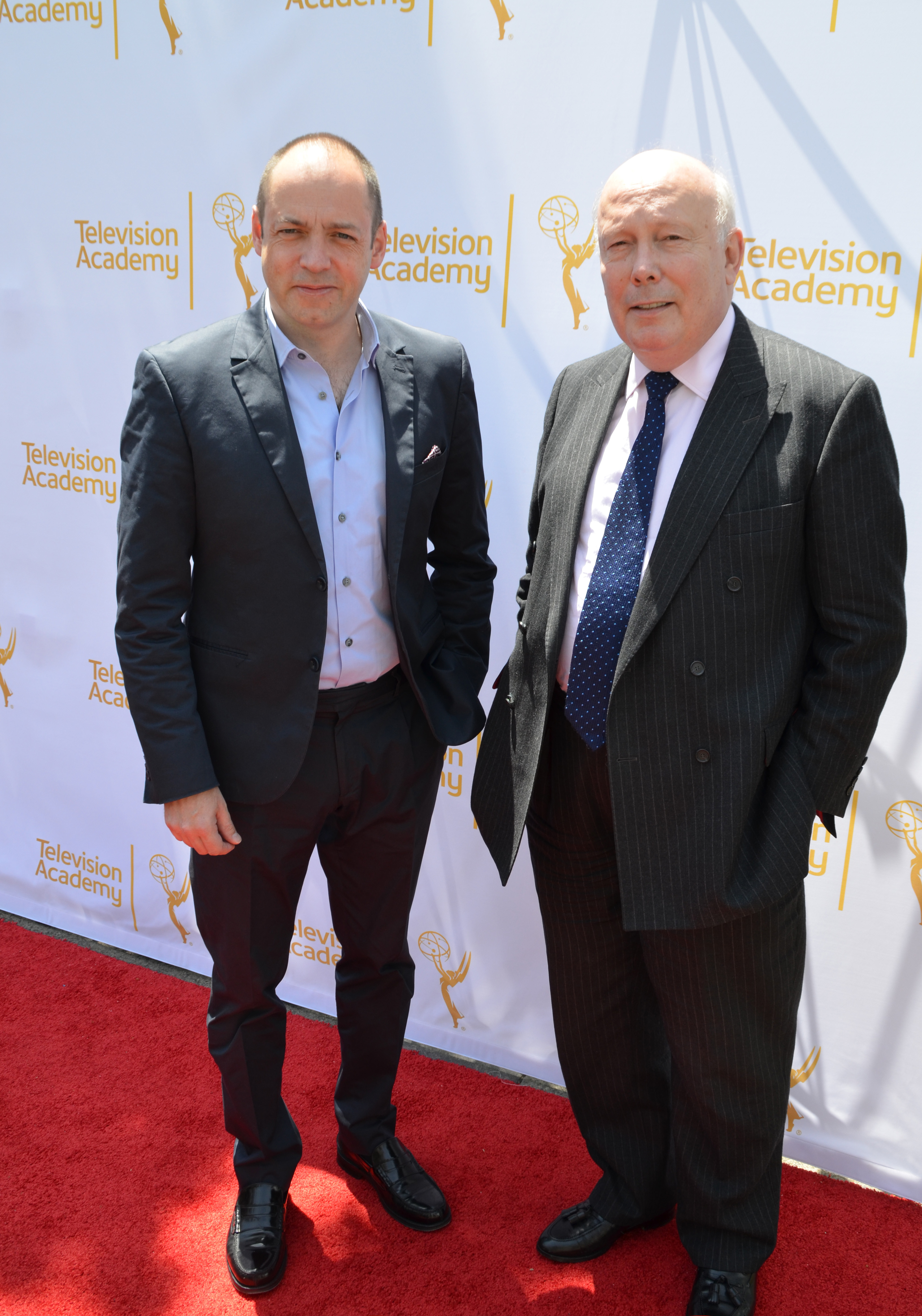 The Television Academy Hosts An Afternoon of Tea, Scones and Chatting with Downton Abbey Cast and Creators at Paramount Studios Saturday afternoon with the creative team and cast members of Downton Abbey at Paramount Studios for a behind-the-scenes look at this Primetime Emmy-winning PBS drama created by Julian Fellowes and co-produced by Carnival Films and Masterpiece.